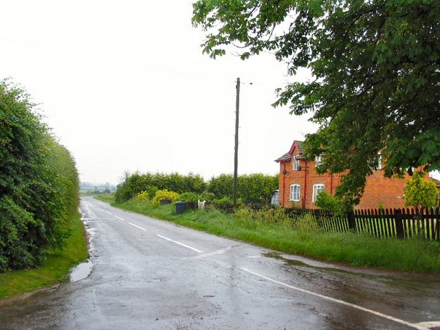 Ewerby Thorpe Looking back towards Howell from the only road junction in Ewerby Thorpe.